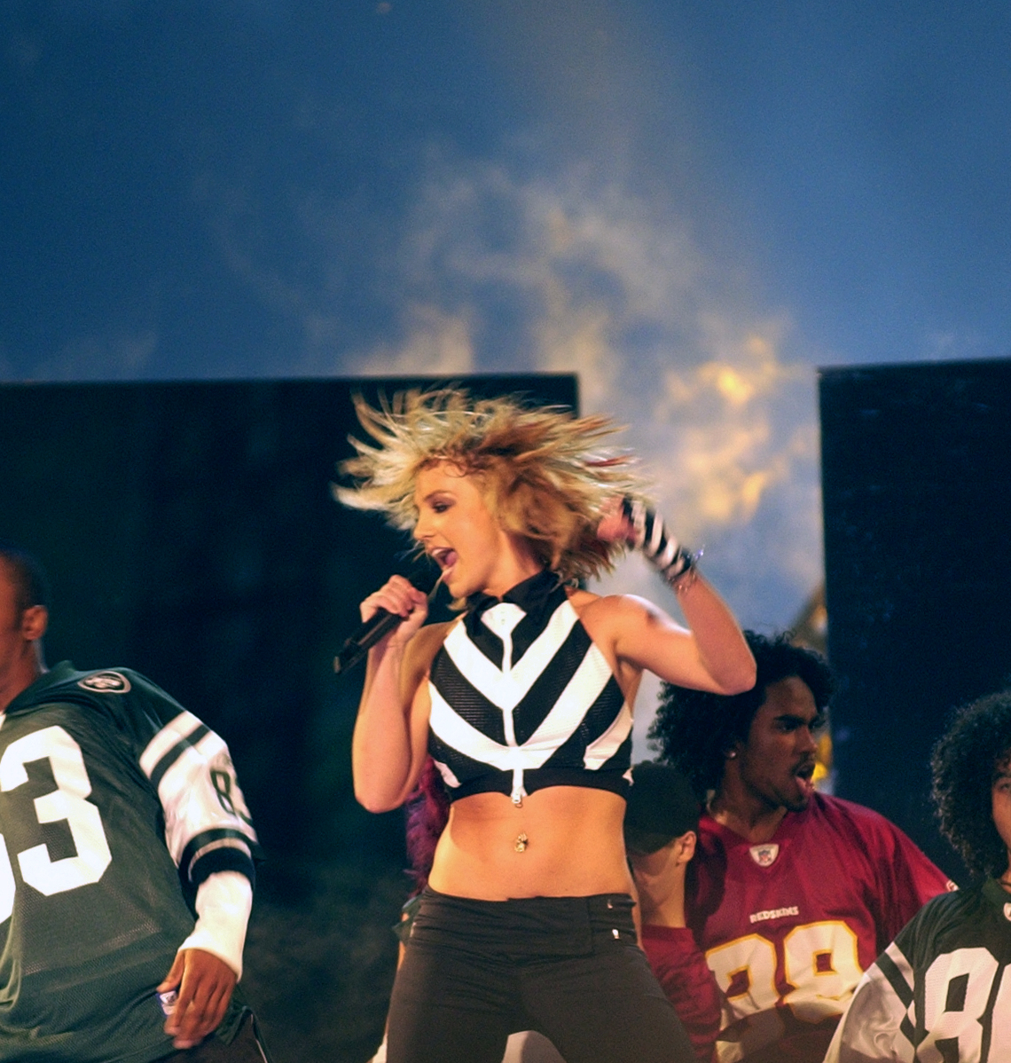 Washington, D.C. (Sep. 4, 2003) – Recording Artist Britney Spears performs on the National Mall during the Operation Tribute to Freedom, NFL and Pepsi sponsored “NFL Kickoff Live 2003” Concert. Organizers provided priority seating for military members and their families. Among the other performers were Aerosmith, Mary J. Blige, Aretha Franklin, and Good Charlotte. Operation Tribute to Freedom (OTF) was set up by the Department of Defense as a way for Americans to show their appreciation to our men and women in uniform. U.S. Navy photo by Chief Warrant Officer 4 Seth Rossman. (RELEASED)